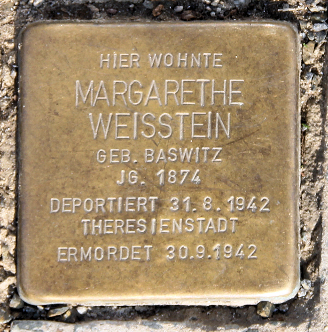 "stumbling block", Margarethe Weisstein, Badensche Straße 21, Berlin-Wilmersdorf, Germany Koordinate:52°29′12″N 13°19′50″E / 52.48667°N 13.33056°E